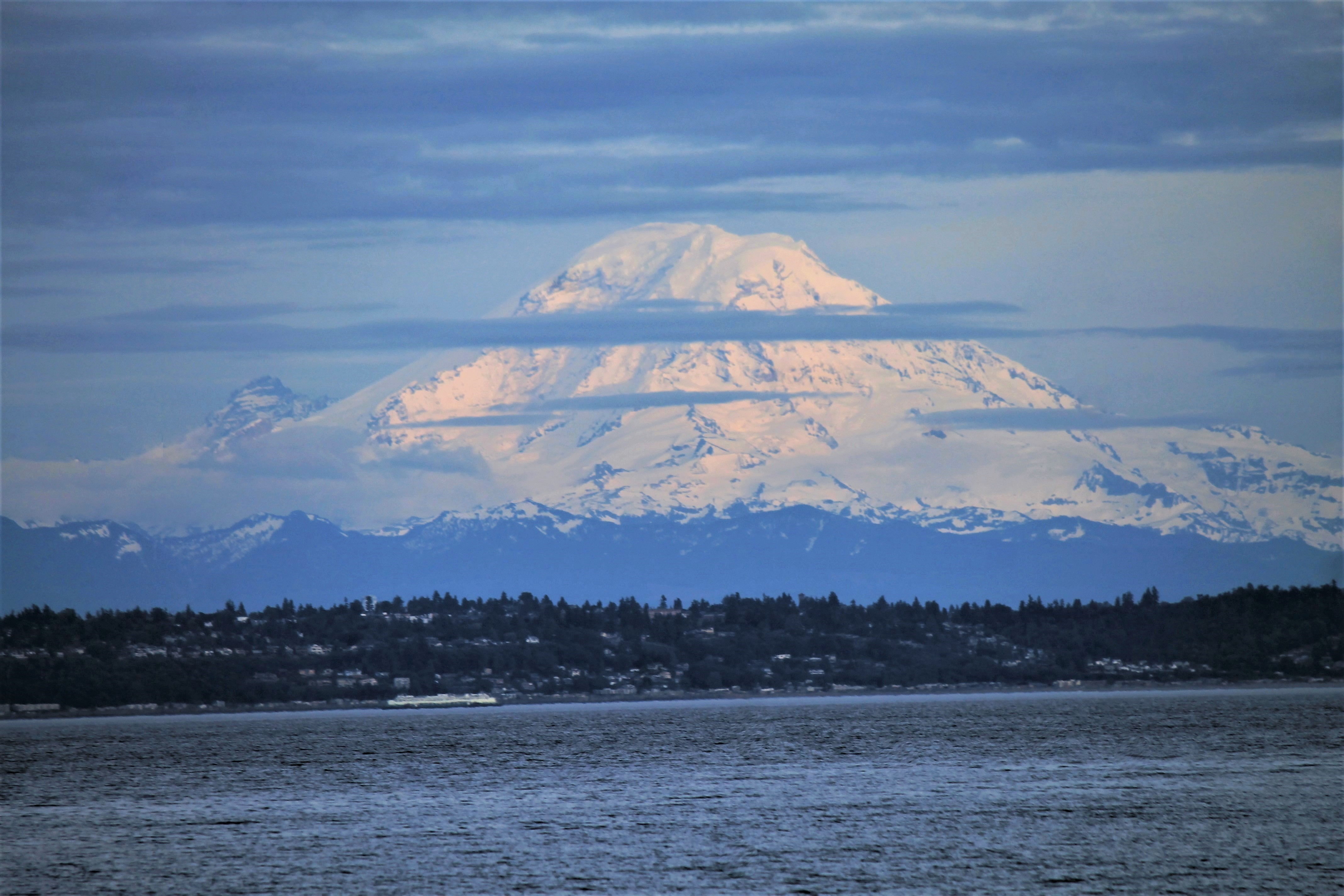 Mt. Rainier seen from Bainbridge Island in June 2020.